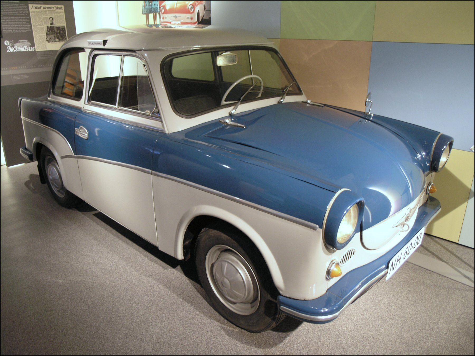 A Trabant (type P50, a.k.a. “Trabant 500”) in the August Horch Museum, Zwickau. This bi-coloured Sonderwunsch (“special wish”) in lido blue/creme was built between June and October 1959.